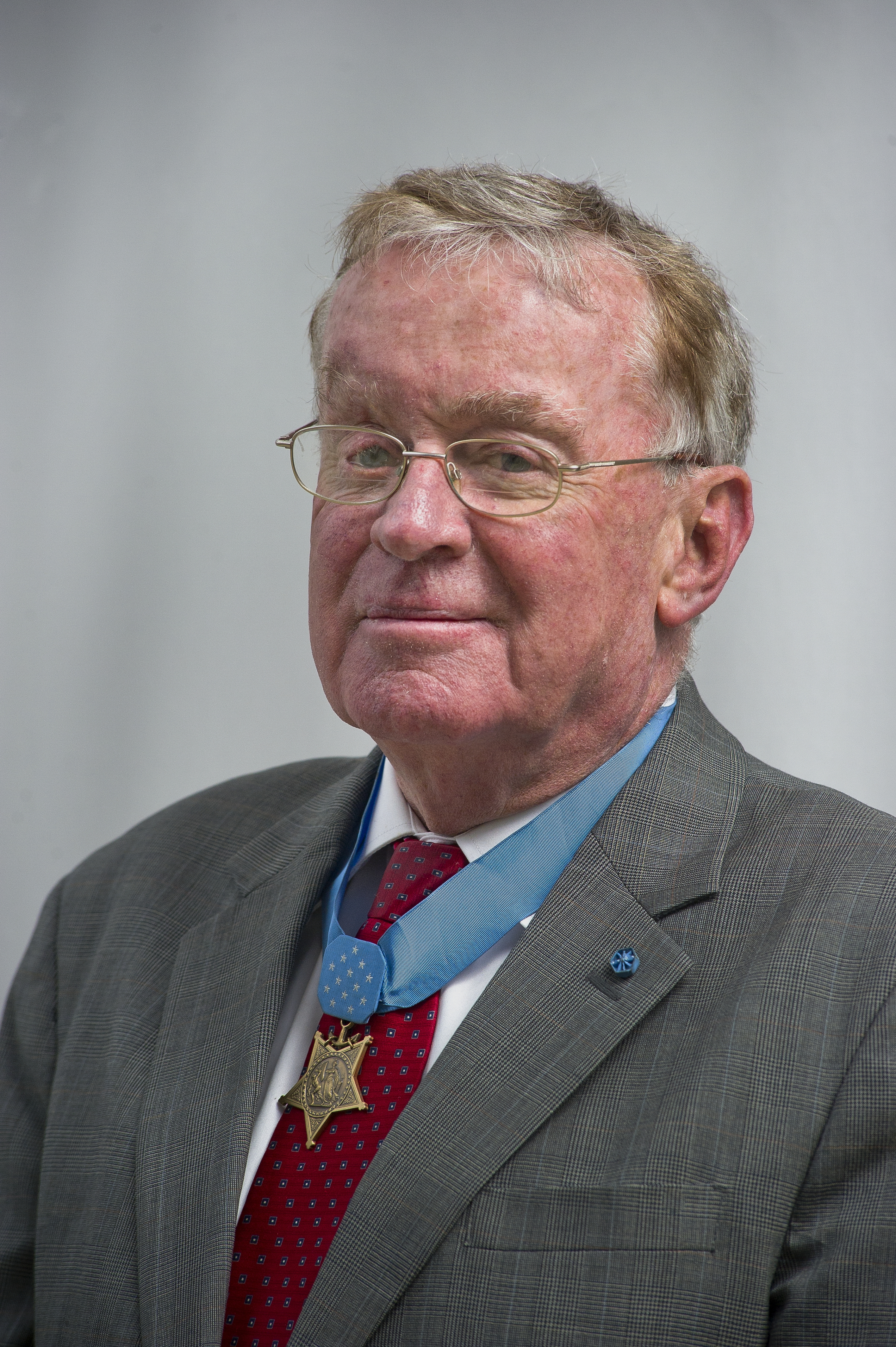 Medal of Honor recipient Thomas G. Kelley attends a luncheon at the conclusion of a remembrance ceremony at Arlington National Cemetery held for family from around the country and for service members from all branches who gathered to honor 262 fallen medical service members who died in battle. The Military Health System has hosted this event since 2009 and serves to bring families together who've lost loved ones that served as doctors, nurses, medics, corpsman and other medical personnel.